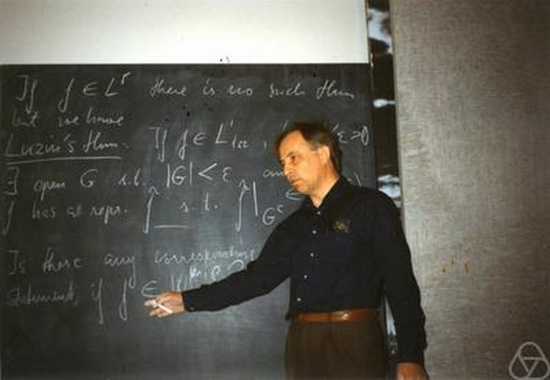 Lars Hedberg 1992